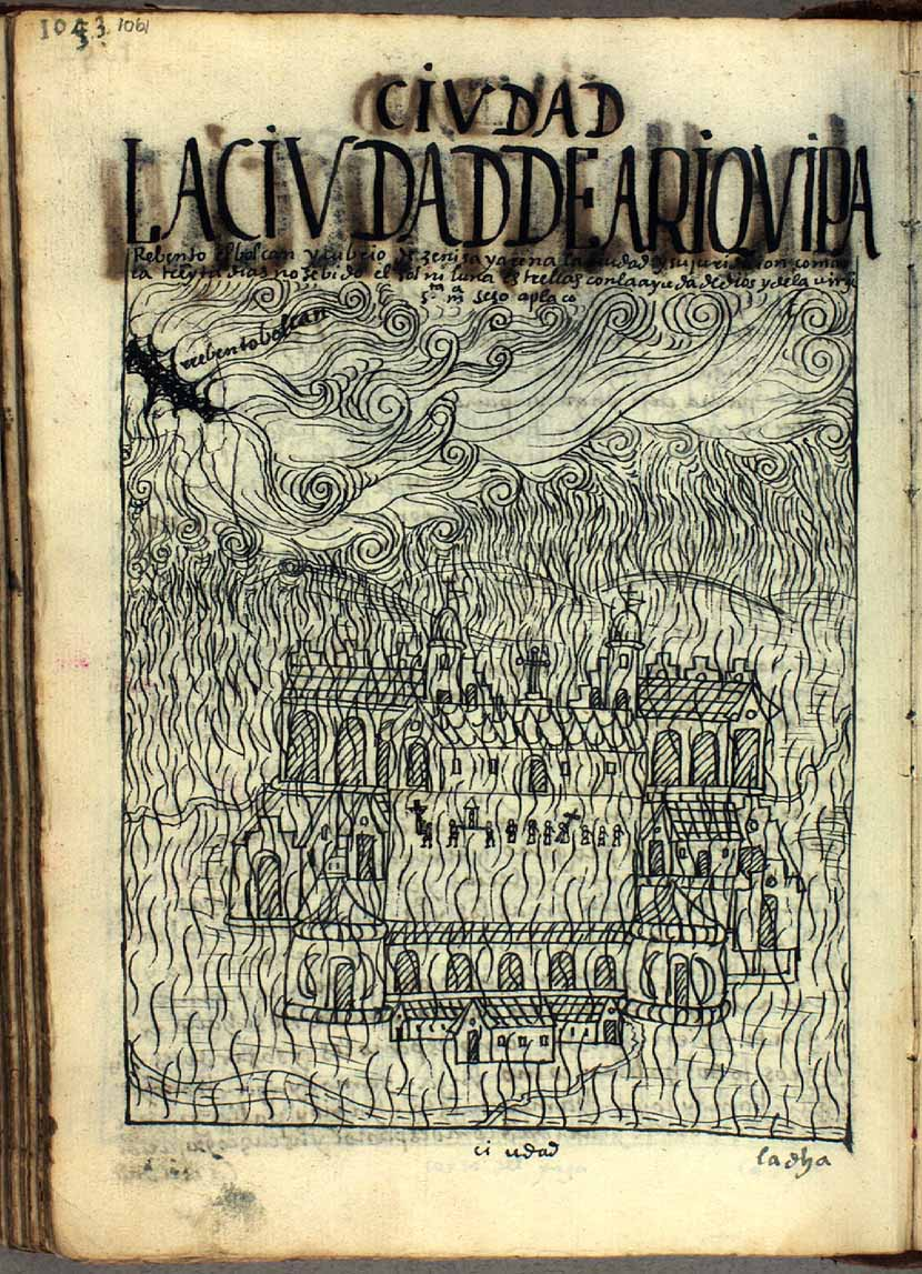 The City of Arequipa during the catastrophic eruption of the volcano Huaynaputina (1600). Tons of ashes fall upon the city.